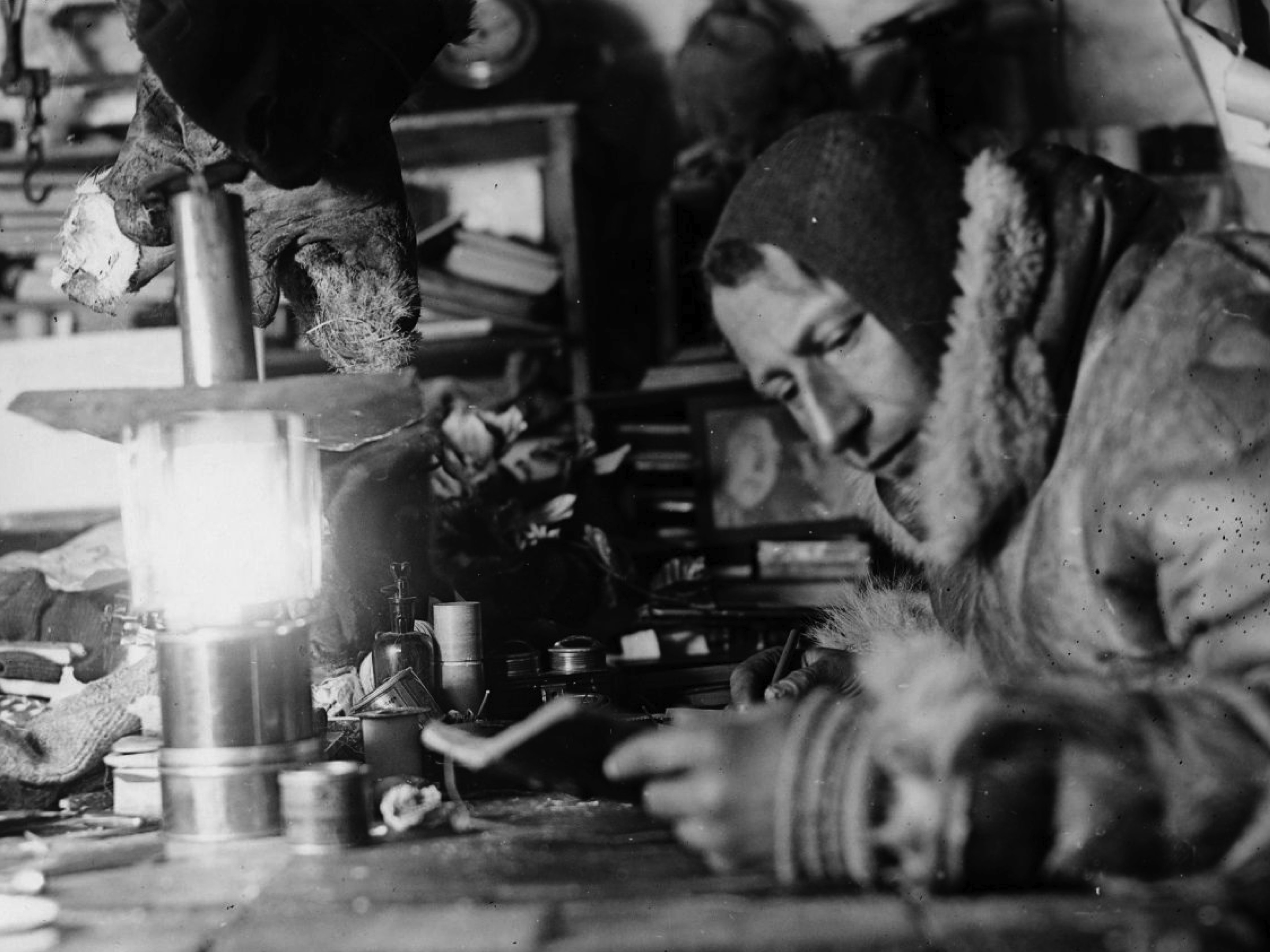 Photograph of the German expedition and overwintering in Greenland